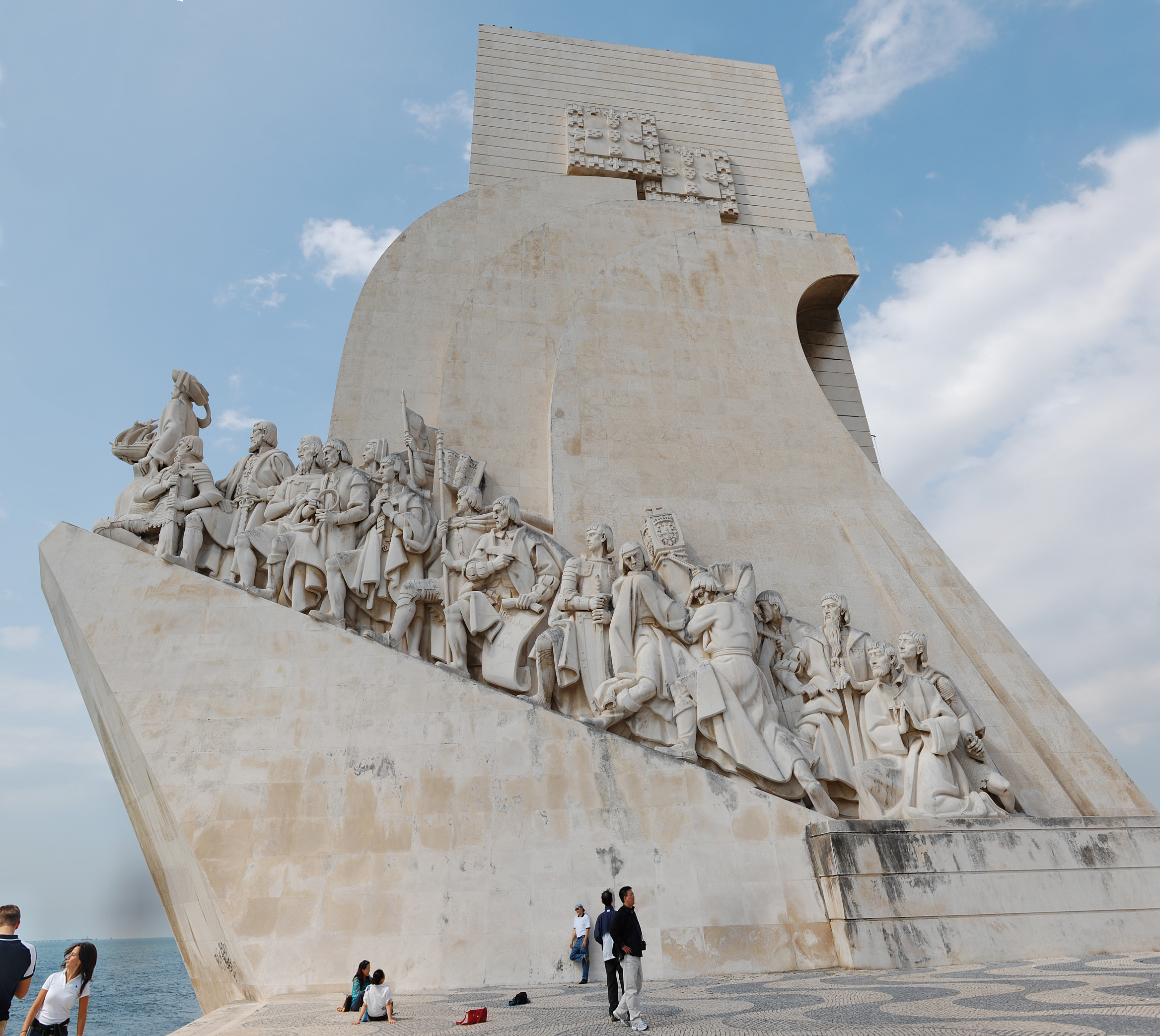 Monument dedicated to Portuguese Discoveries in Lisbon